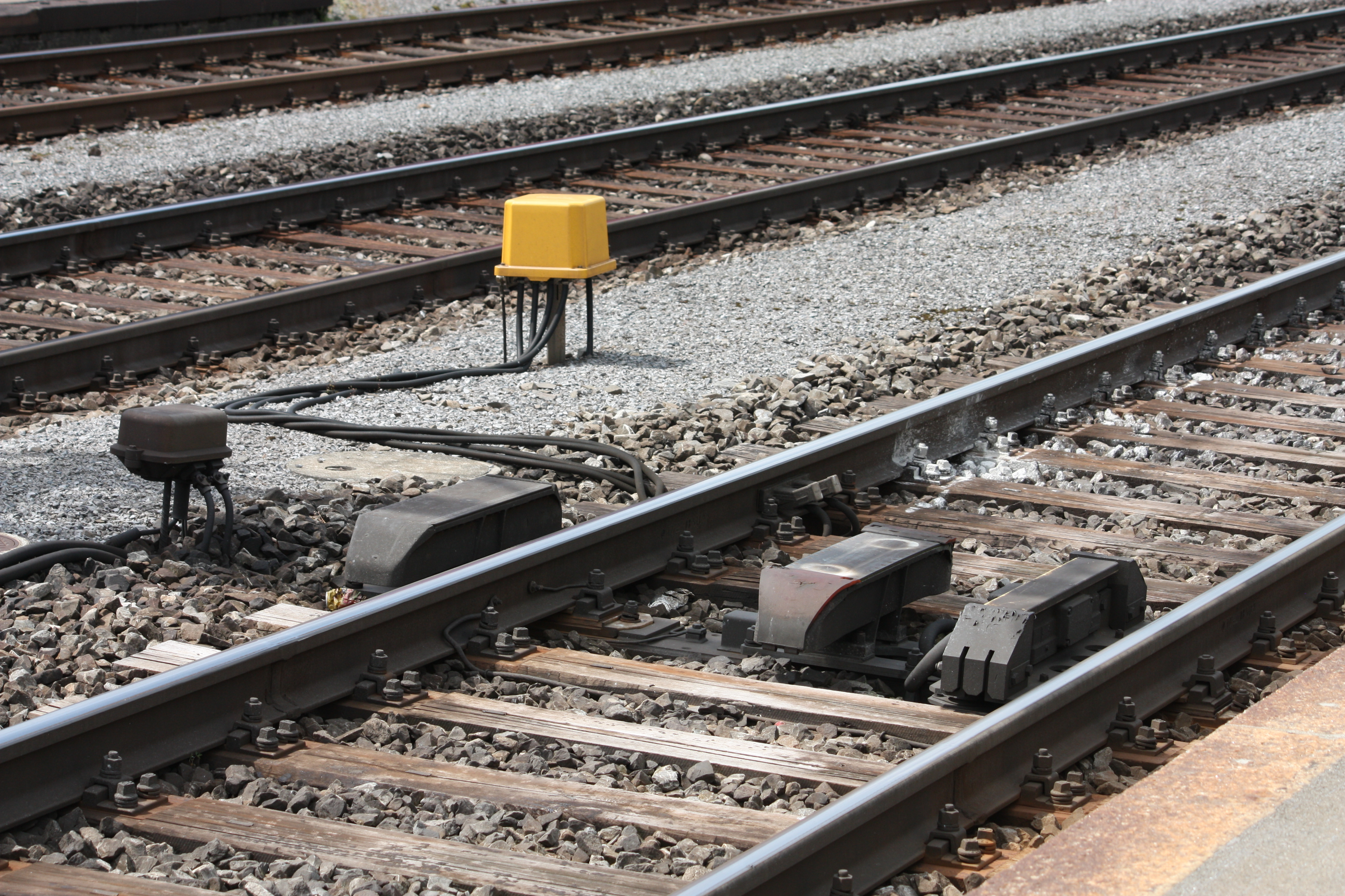 Rotkreuz train station Train protection systems